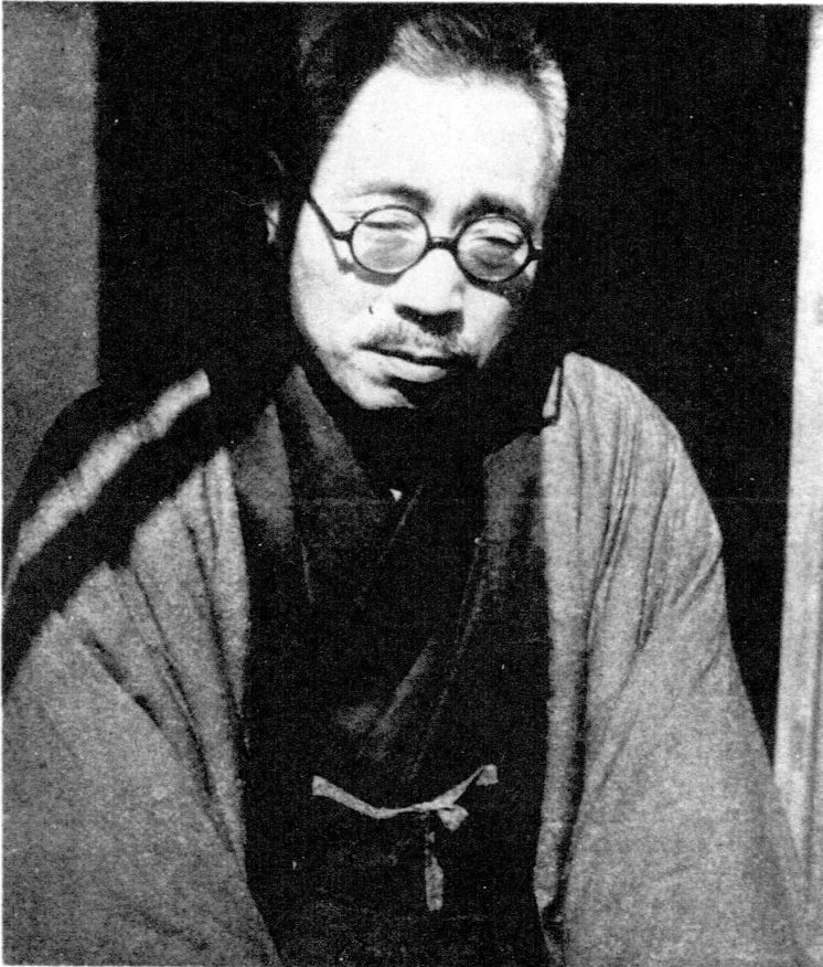 Ōmi Komaki